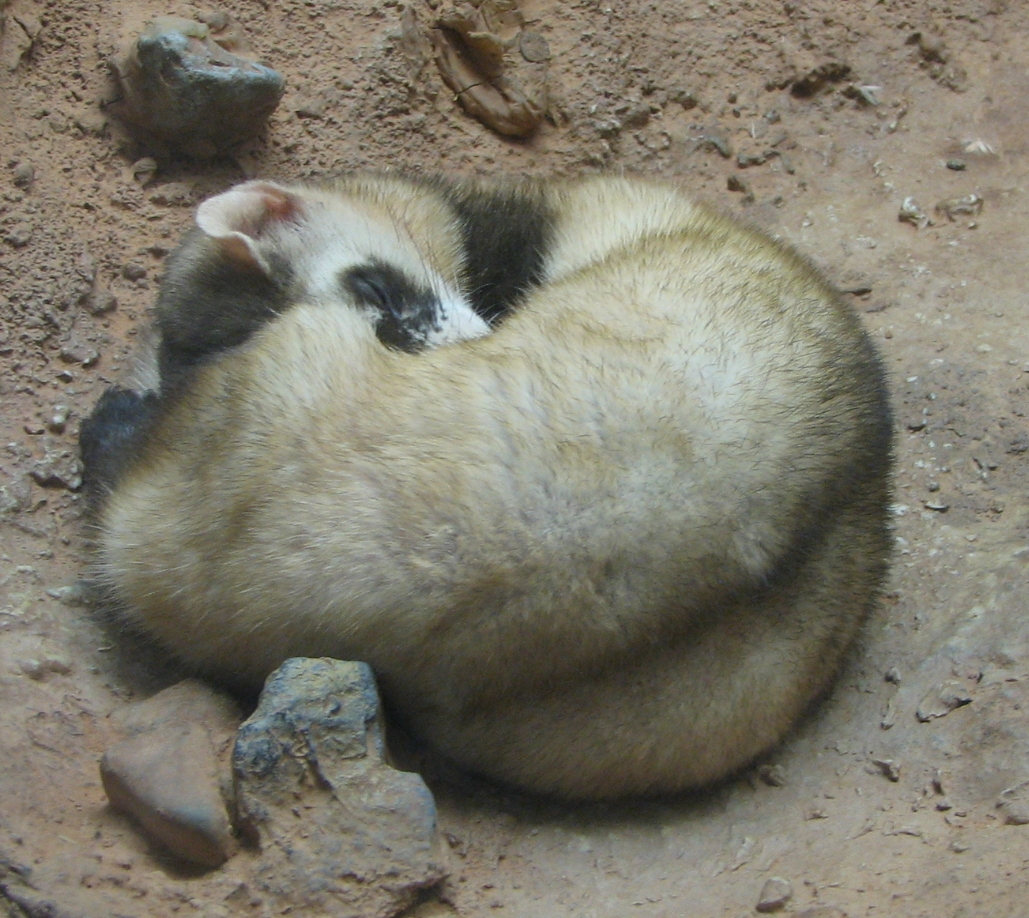 Black Footed Ferret